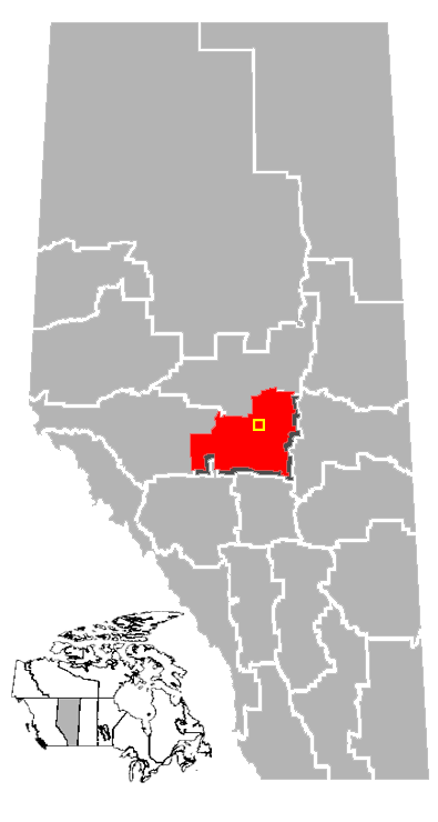 Location of Spruce Grove, Census Division No. 11, Albera